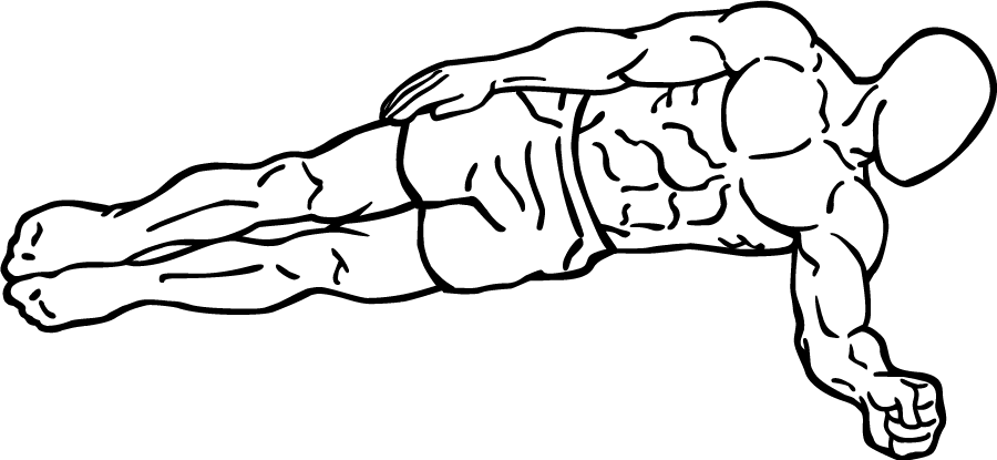 an exercise of abs